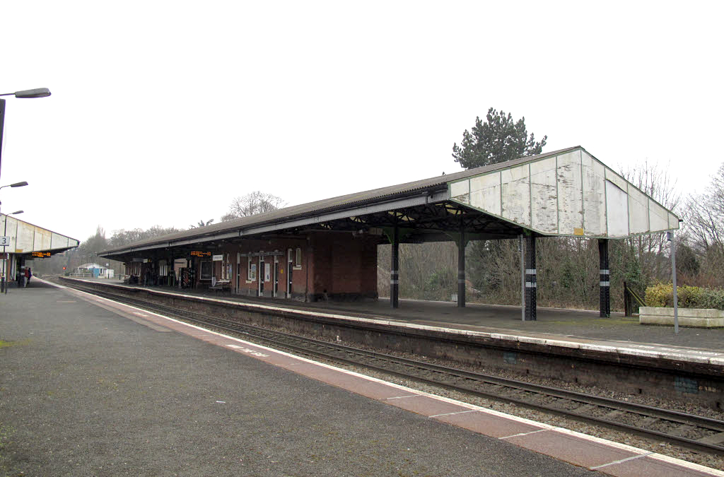 Up platforms at Stourbridge Junction The island platform (1/2) seen from platform 3.